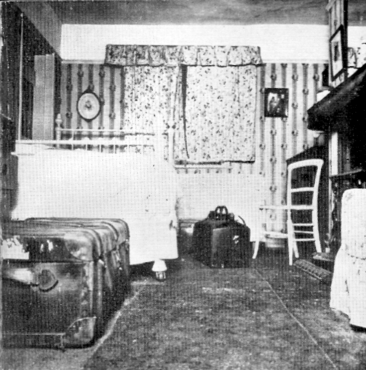 Police photograph of the trunk in which Violette Kaye's body was found in the Brighton trunk muders